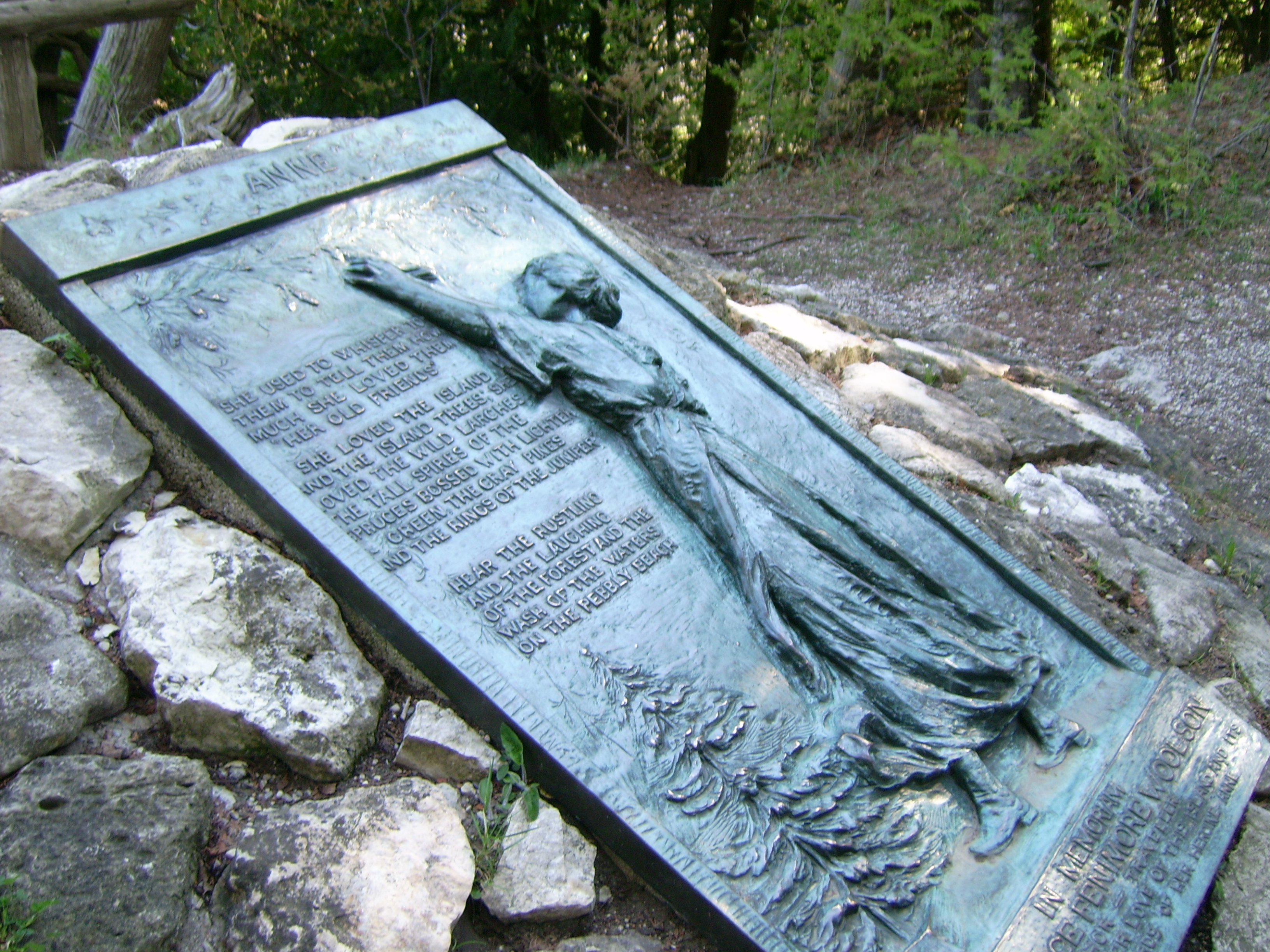 Anne's Tablet (1916) by William Ordway Partridge to honor Constance Fenimore Woolson, Mackinac Island, Michigan.